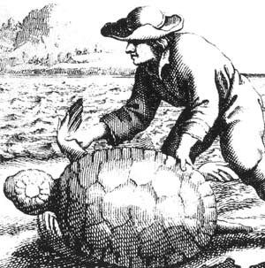 woodcut of figure lifting turtle